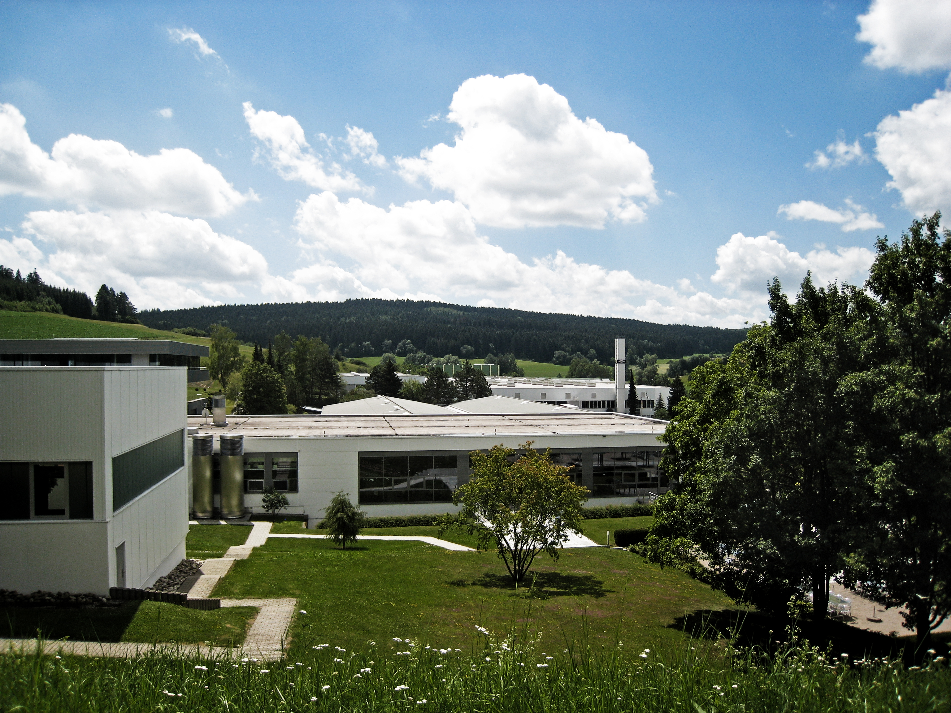 Headquarters of the fischer Group of Companies in Waldachtal, Germany.